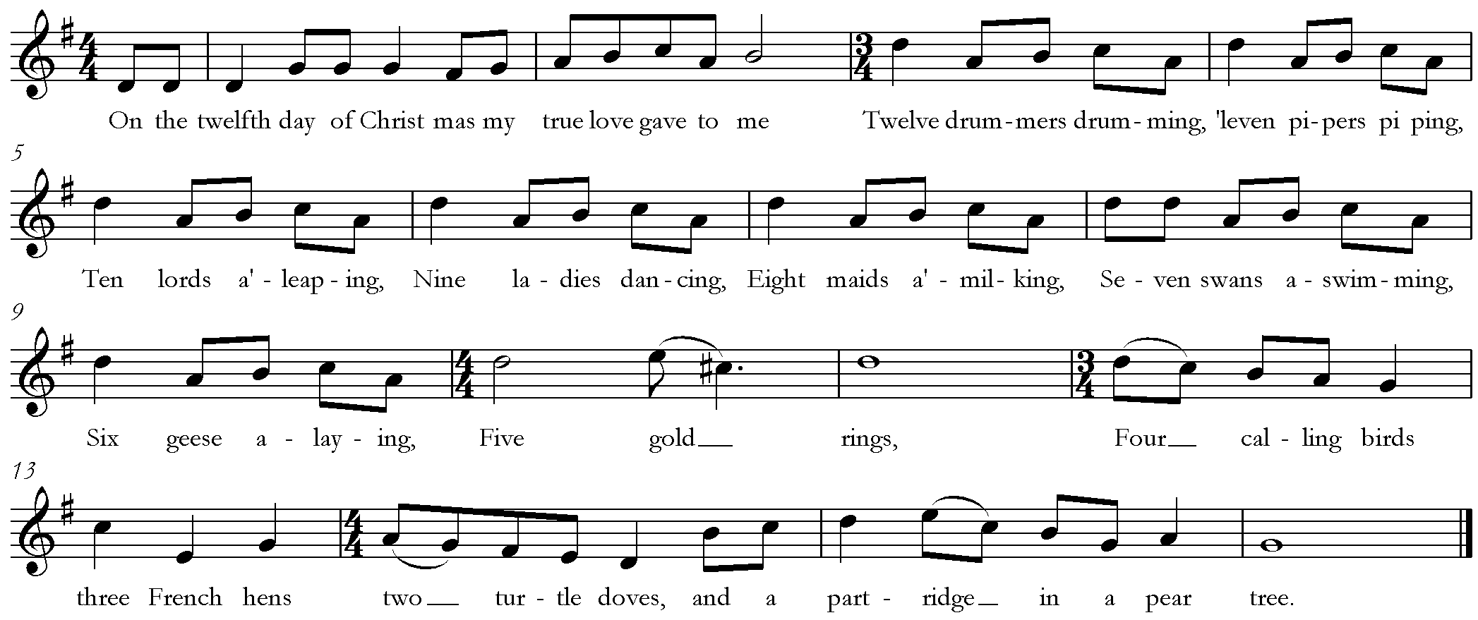 The last verse of The Twelve Days of Christmas. The Song was published in 1780, so it is public domain.